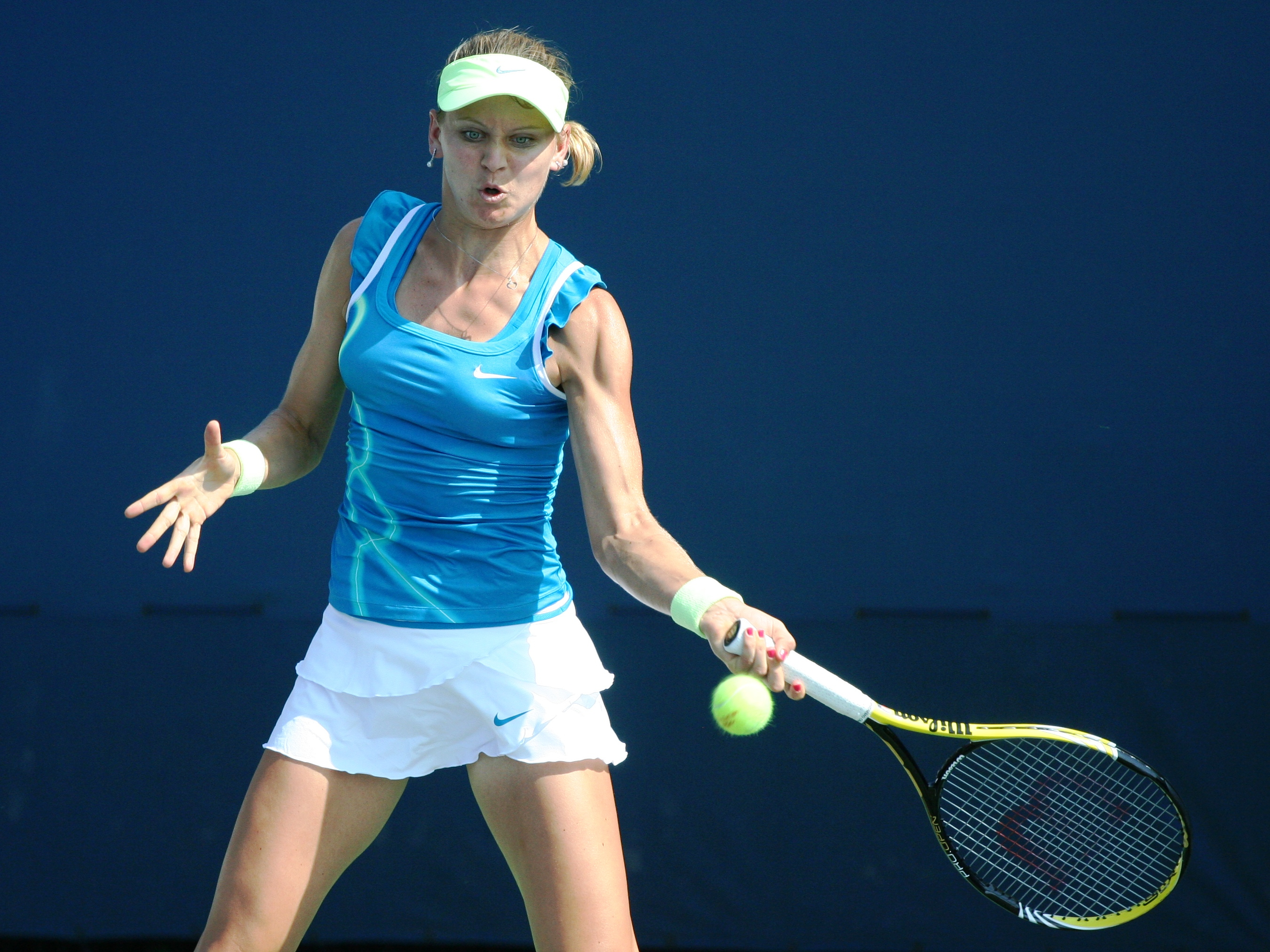 U.S. Open Tuesday, Aug. 31, 2010